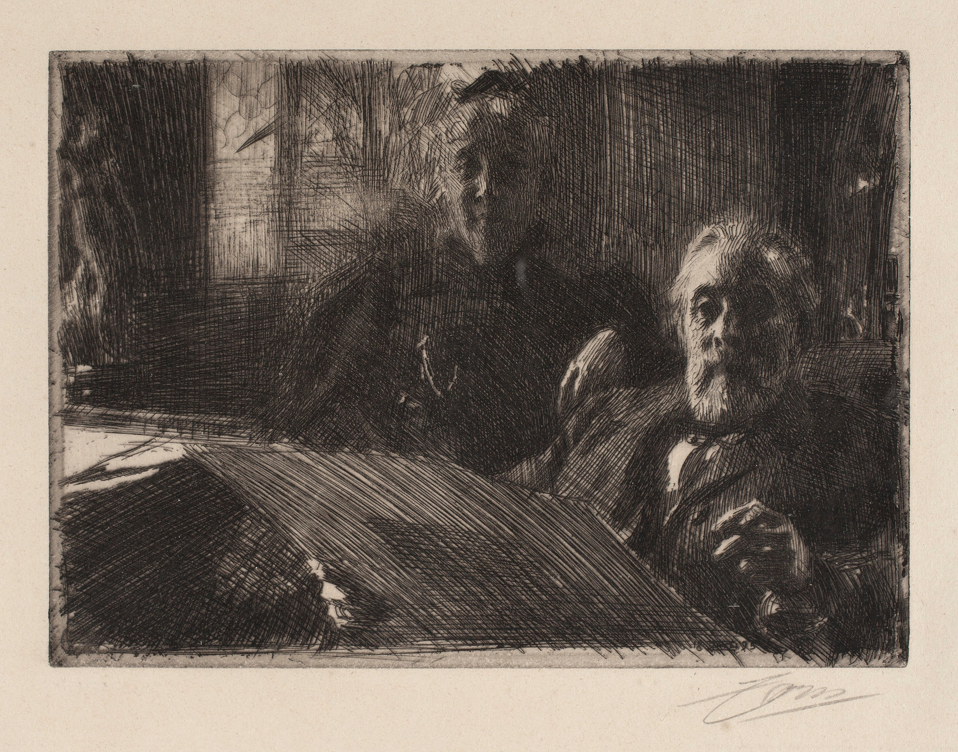 Etching of Swedish art patron Pontus Fürstenberg (1827-1902) and his wife Göthilda